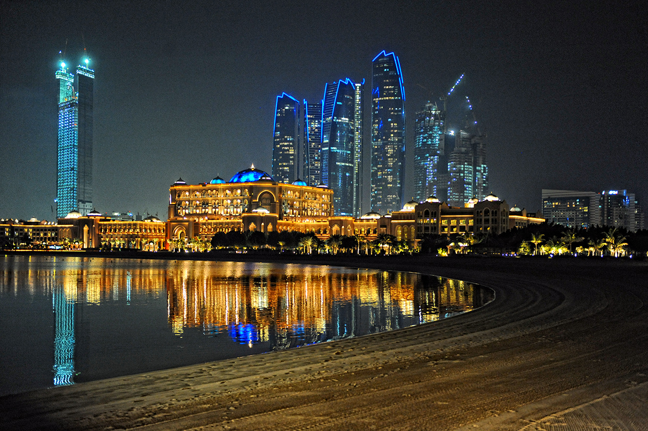 Night city Abu Dhabi